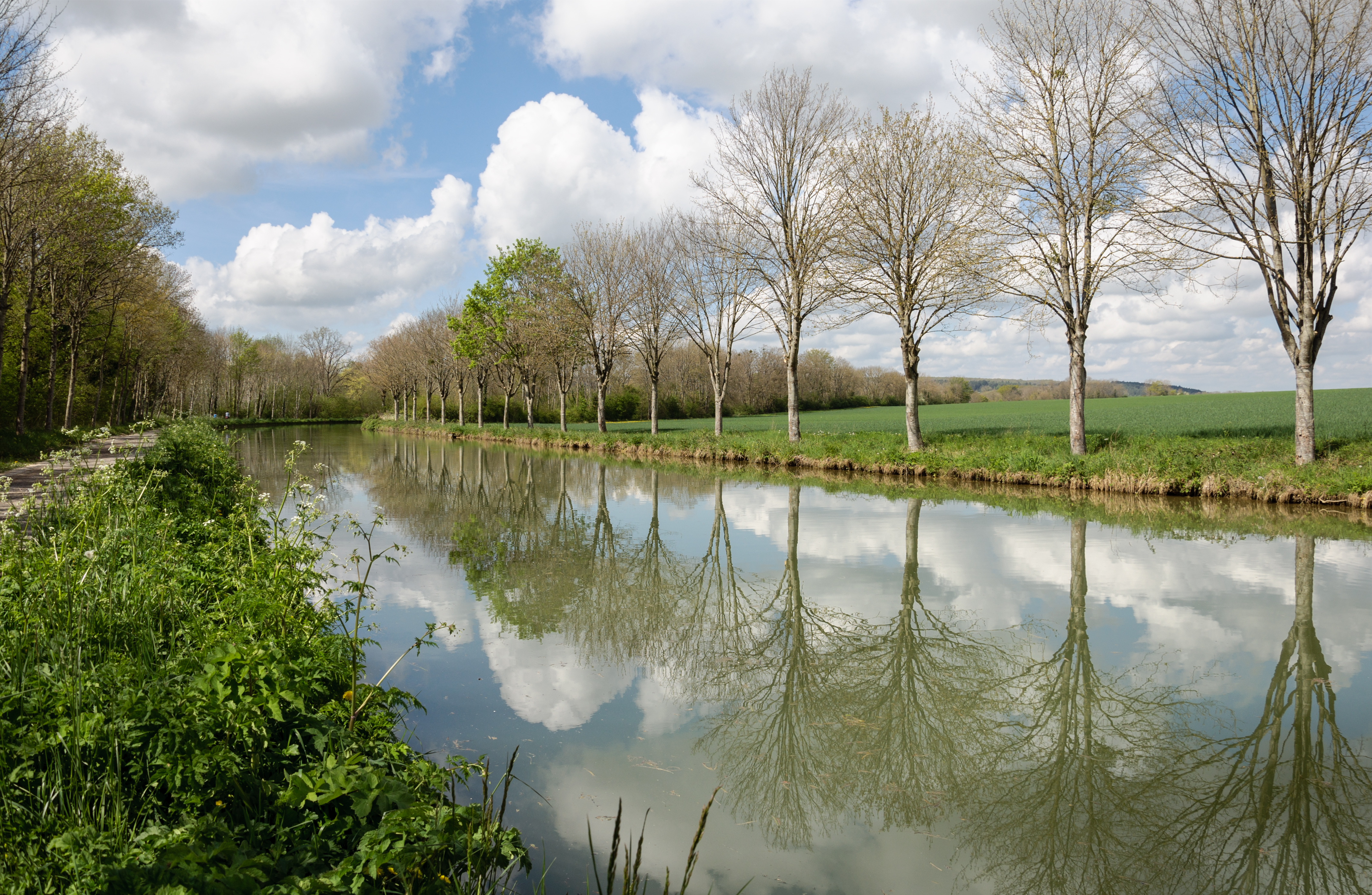 The Burgundy Canal (Canal de Bourgogne) between lock "de la Papeterie" n. 77 and lock "de Fulvy" n. 78 (Burgundy, France).